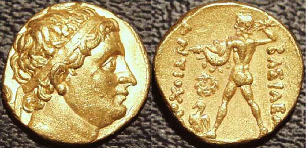 Gold stater of the Bactrian king Diodotos, in the name of the Seleucid emperor Antiochus I, c. 250 BCE